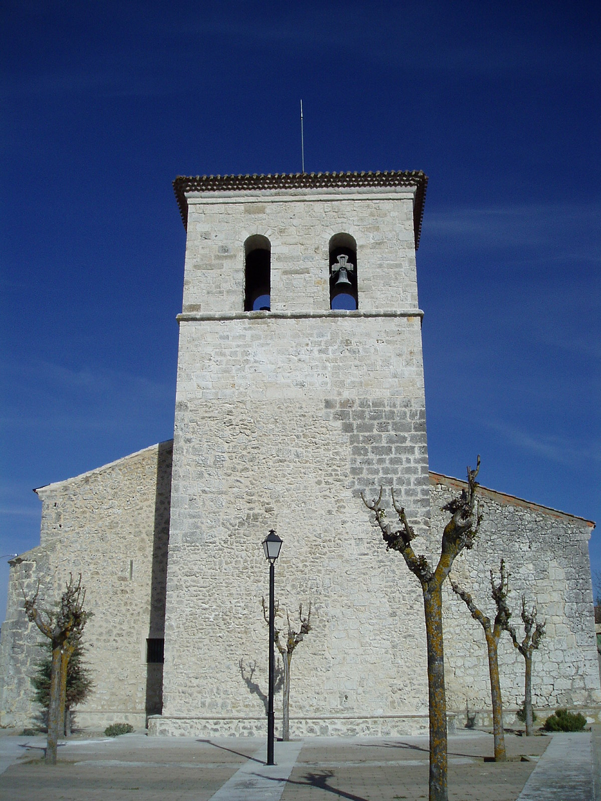 Front view of the parish church of La Parrilla (Valladolid), dedicated to Nuestra Señora de los Remedios.